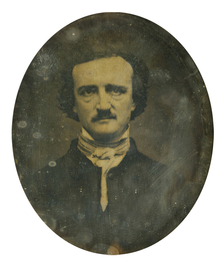 "Daguerreotype of American writer Edgar Allan Poe. Sixth plate. In Reserve Collection of American Antiquarian Society, with envelope written in Poe's hand to Mrs. Sarah Helen Whitman. Daguerreotype used as a model for Timothy Cole's wood engraving of Poe that appeared in the May 1880 Scribner's Magazine. Glass inserted February 1970 by George Eastman House. Gift of Mrs. Charles T. Tatman, 1947."[1]